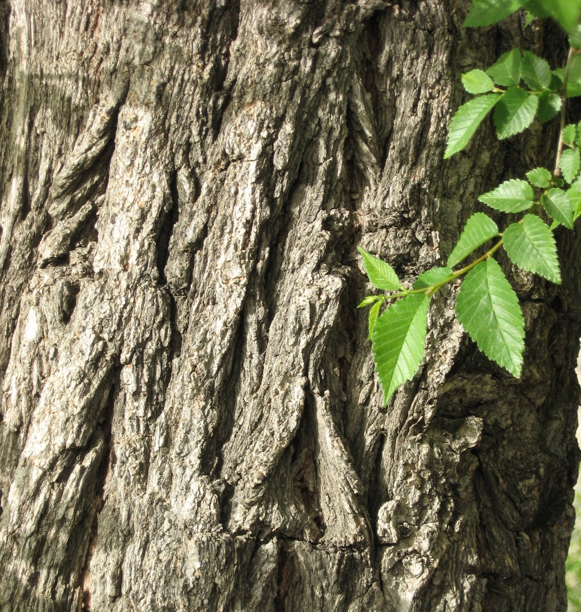 Photo taken by author of U. canescens trunk, Antal Ben Shaddad street, Jersualem, 22 April, 2009.